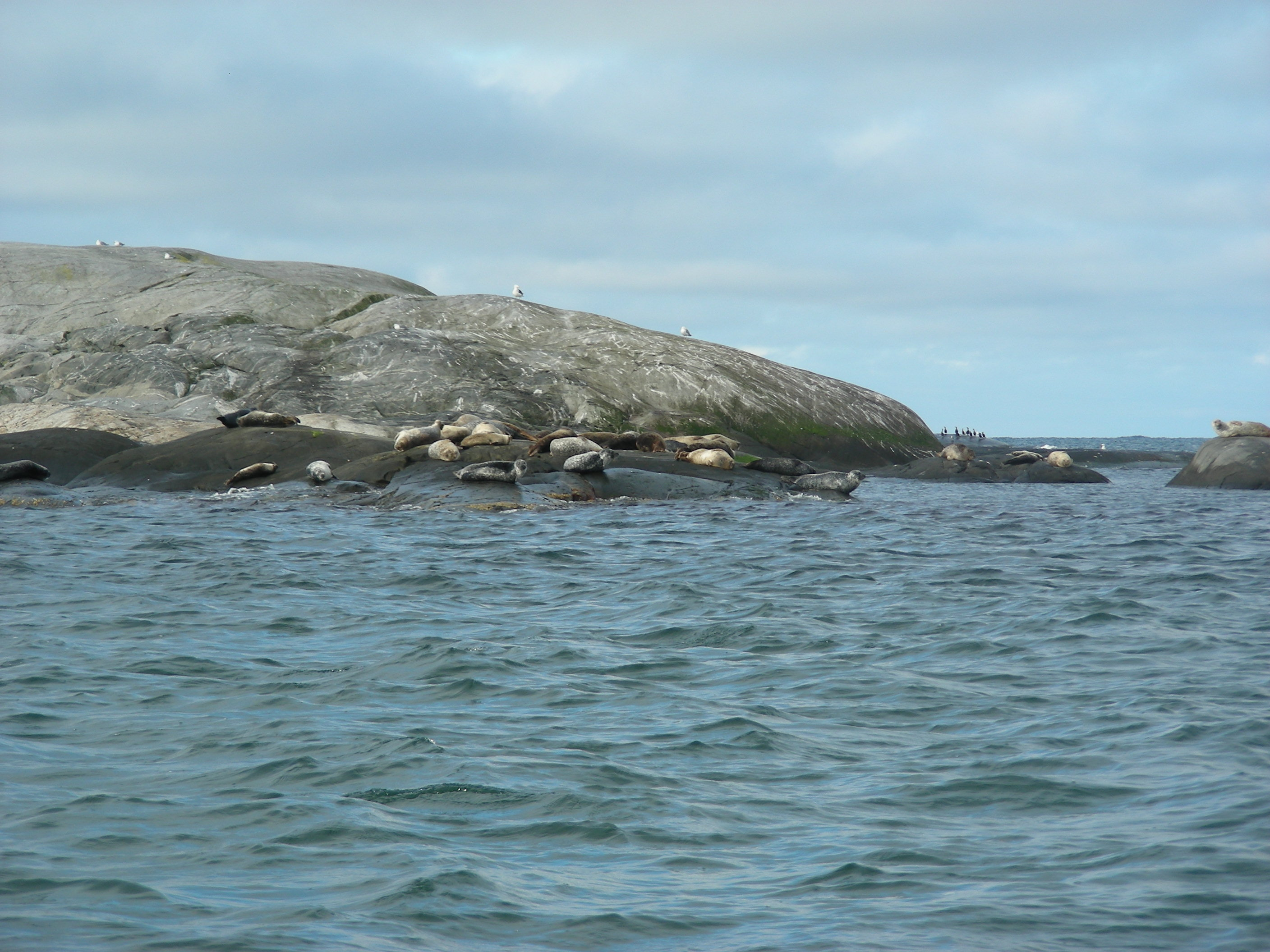 Photograph by: Thomas Eliasson, SGU Date: 20080823 Place: Koster National Park, Sweden